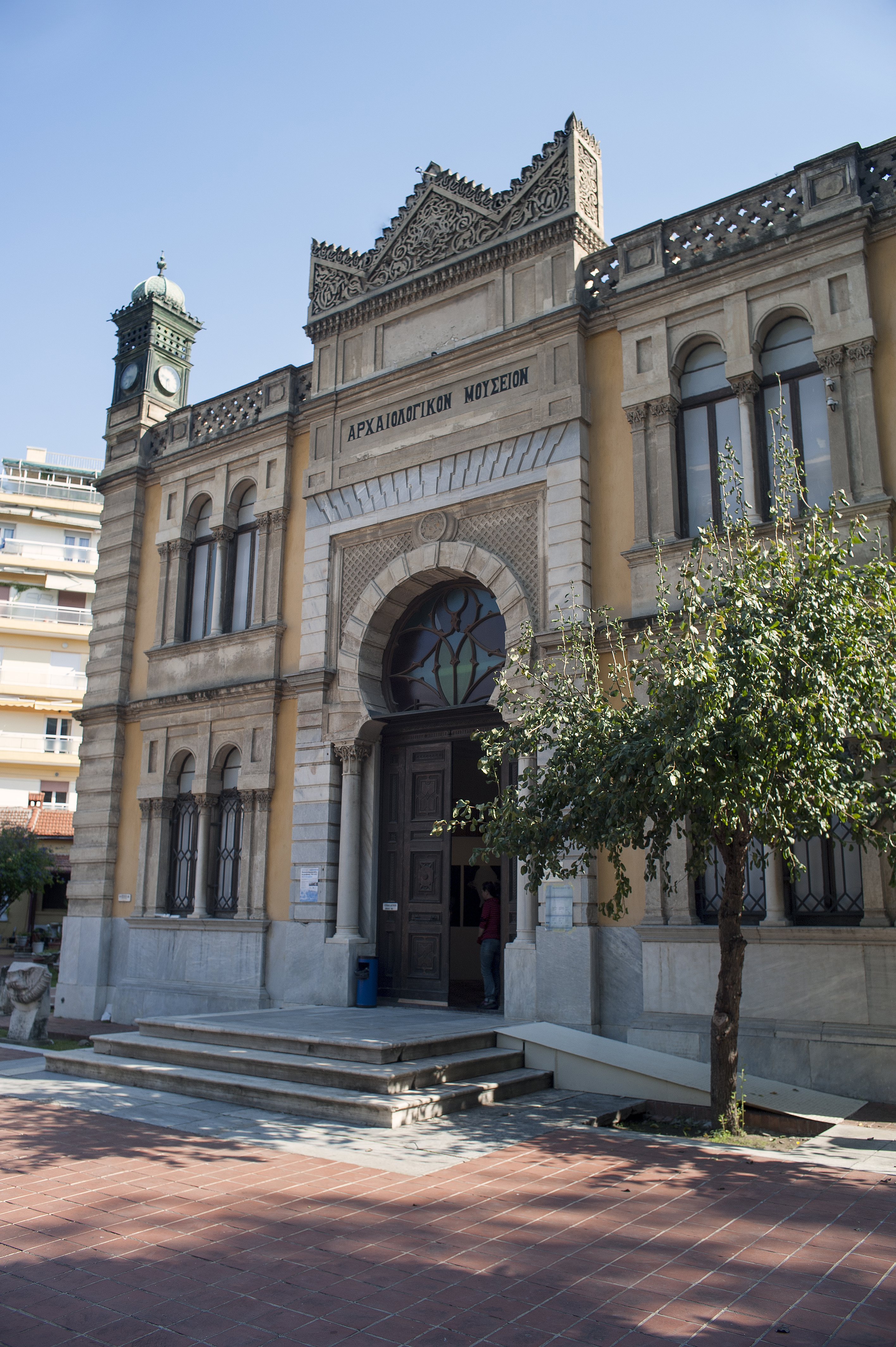 Exterior of Yeni Mosque (ex Archeological Museum), Thessaloniki, Greece.